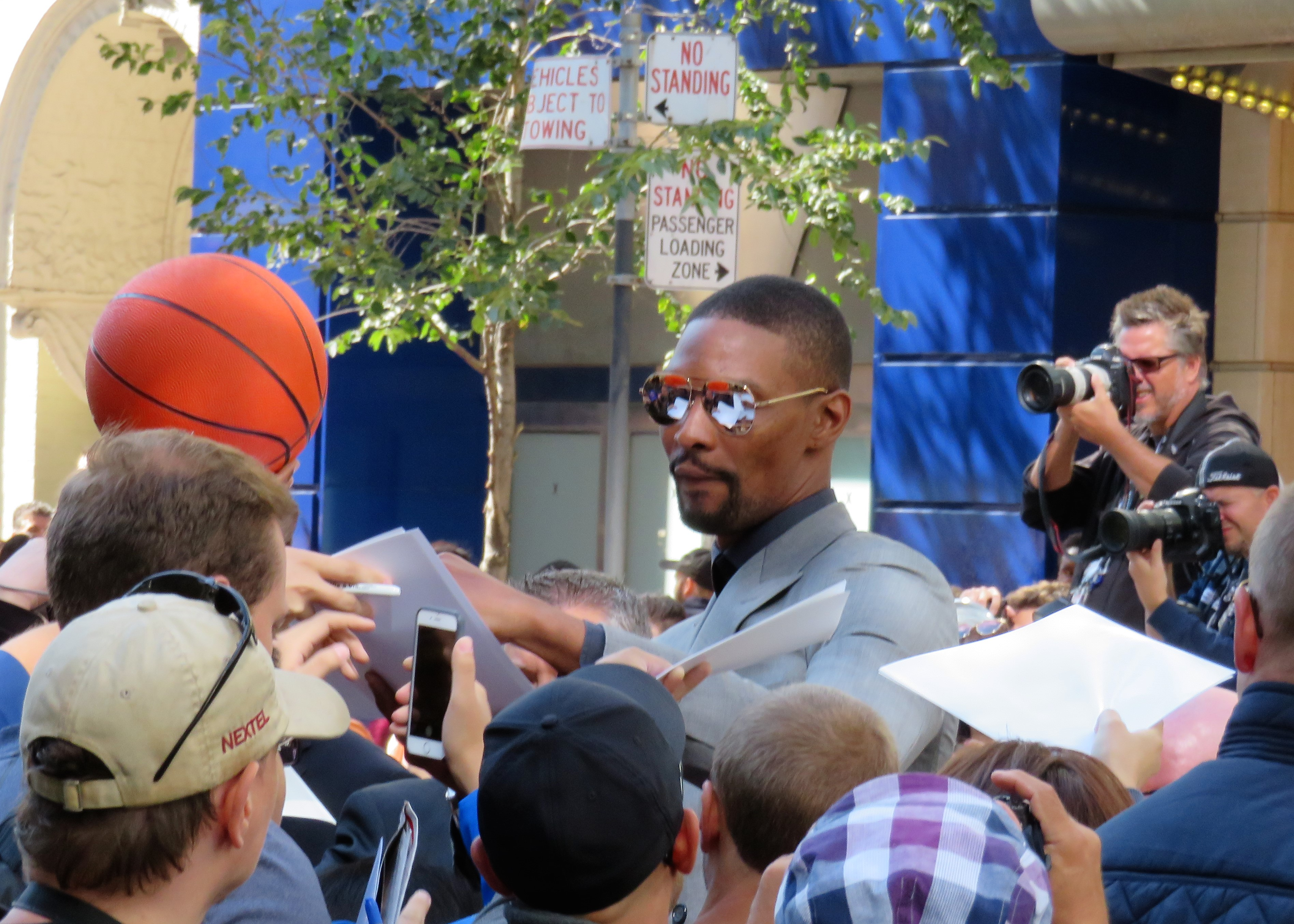 Chris Bosh at the premiere of The Carter Effect, 2017 Toronto Film Festival